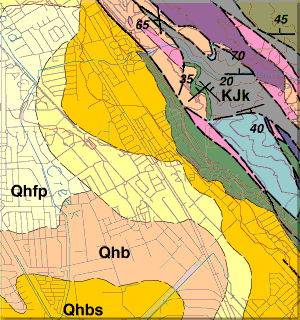 geological mapping example